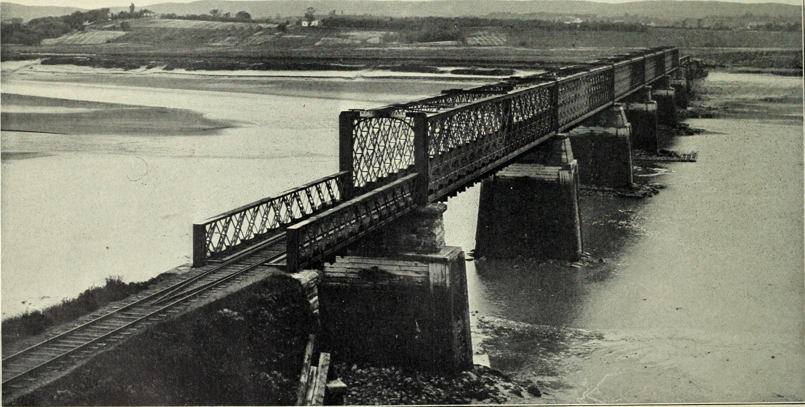 Title: Land of Evangeline, Dominion Atlantic Railway Year: 1897 (1890s) Authors: Dominion Atlantic Railway Subjects: Publisher: Philadelphia : J. Murray Jordan Text Appearing Before Image: ' Text Appearing After Image: DOMINION ATLANTIC RAILWAY BRIDGE AT WINDSOR.